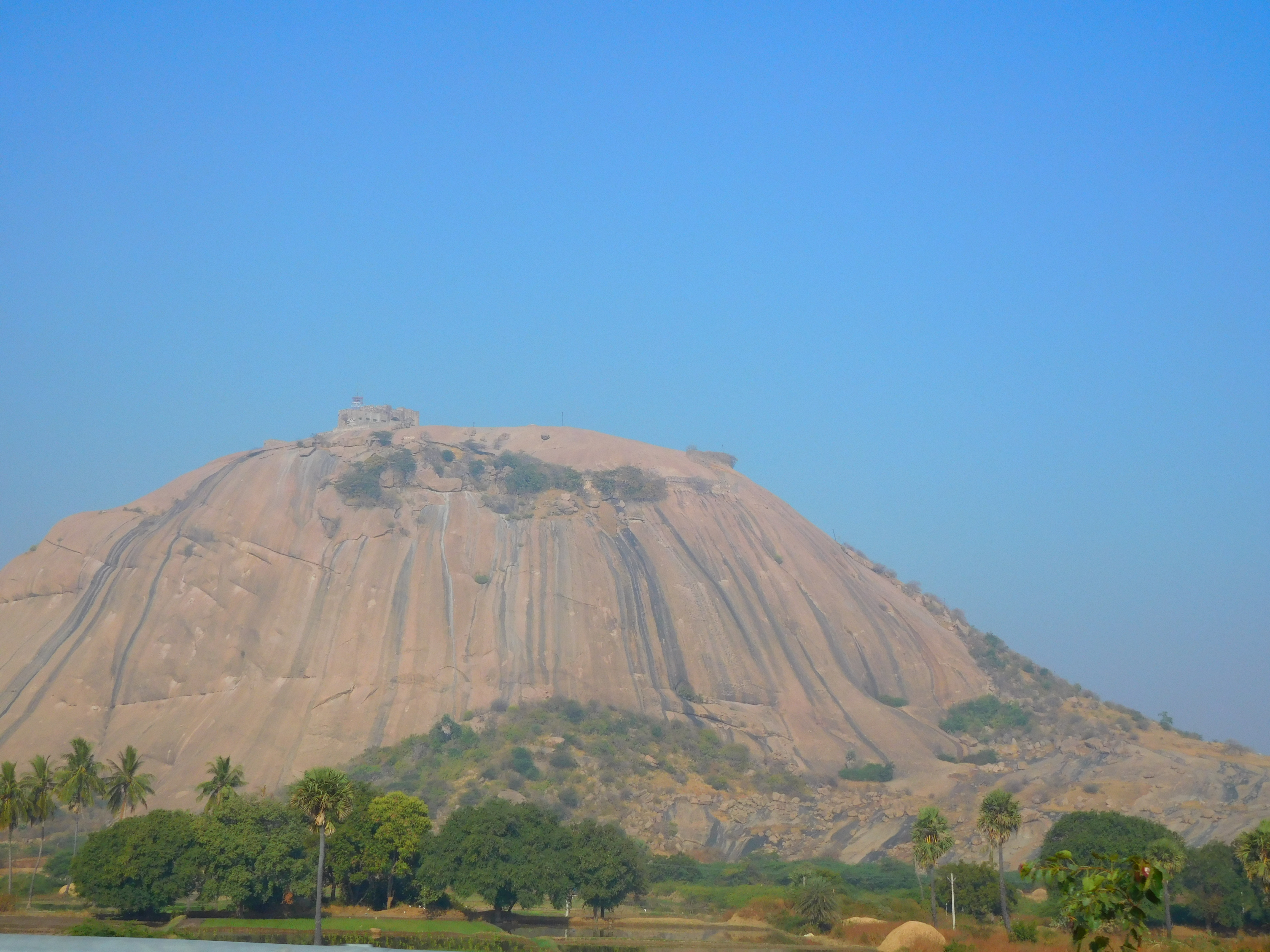 Bhuvanagiri Fort, Bhuvanagiri, Telangana, India